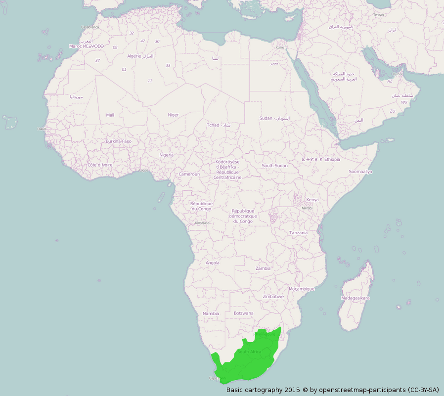 distribution area of African pied starling (Lamprotornis bicolor) [formerly Spreo bicolor]